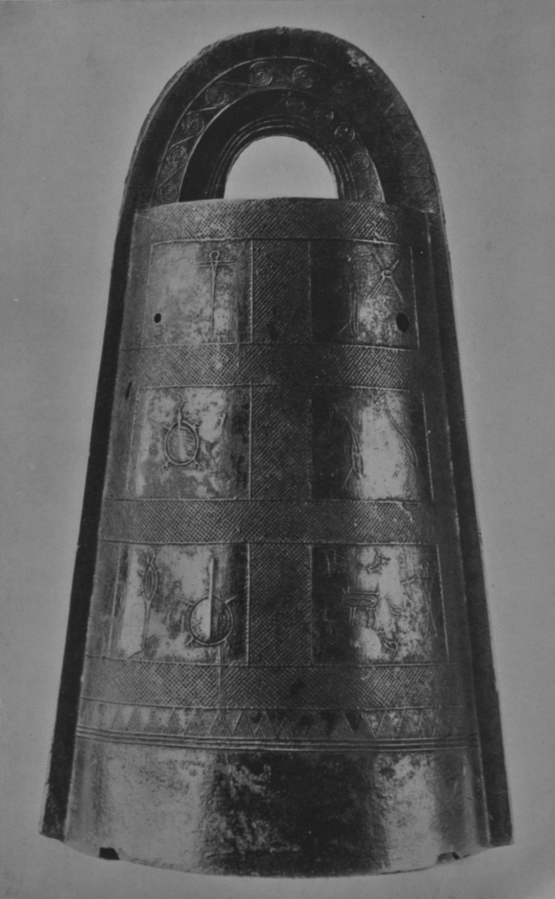 Tokyo National Museum, Tokyo, Japan